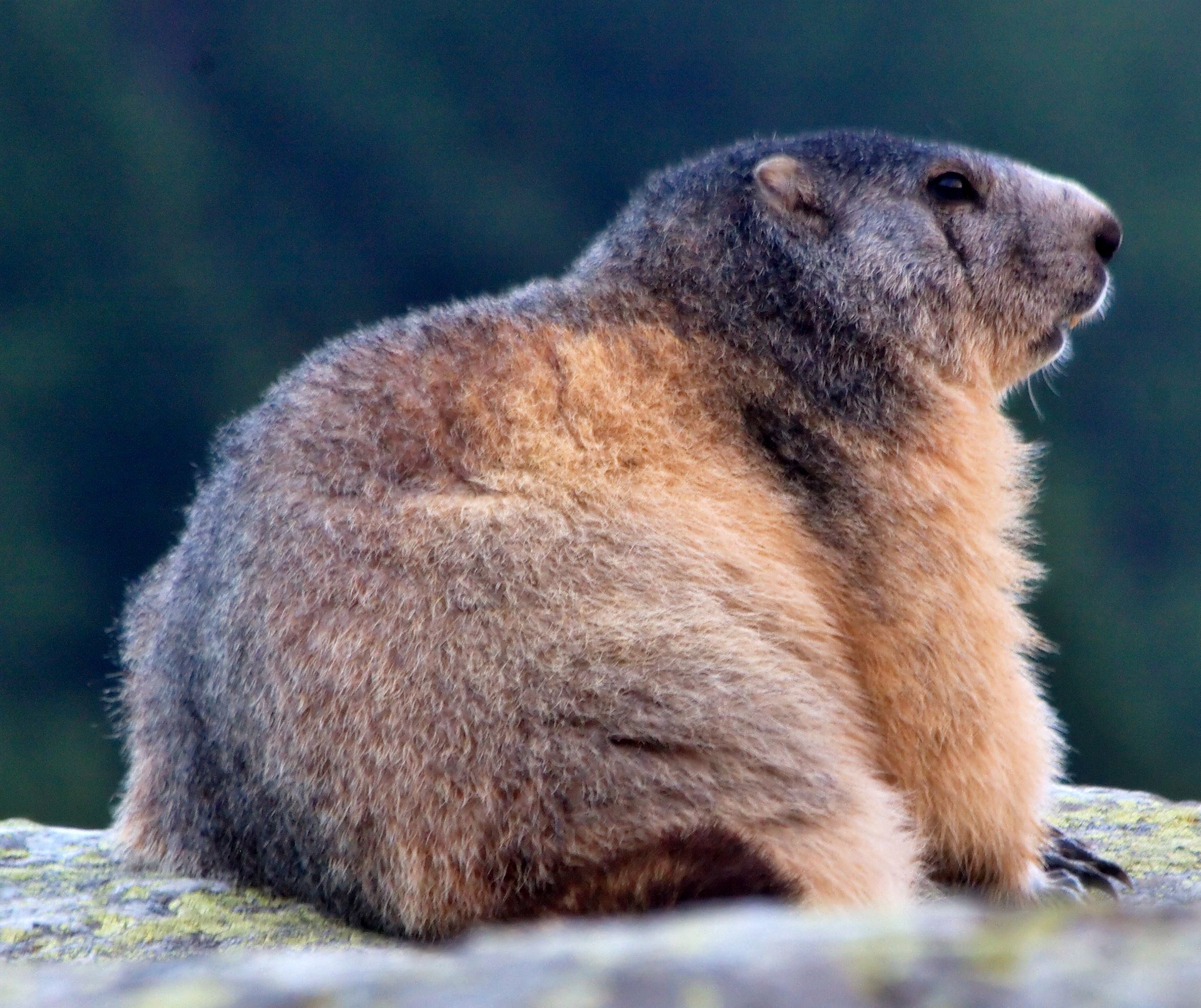 Alpine marmot, Marmota marmota, in the Vallon de l'Orgère, north of Modane, France. Note the fattened belly in preparation of hibernation.